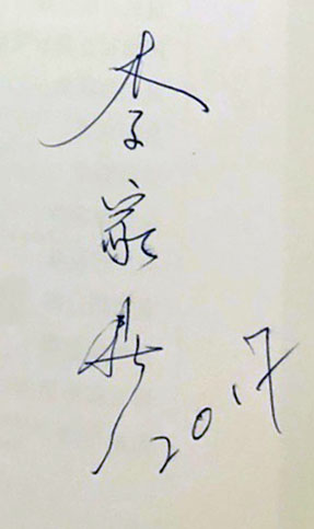 This is Steve Lee's signature.